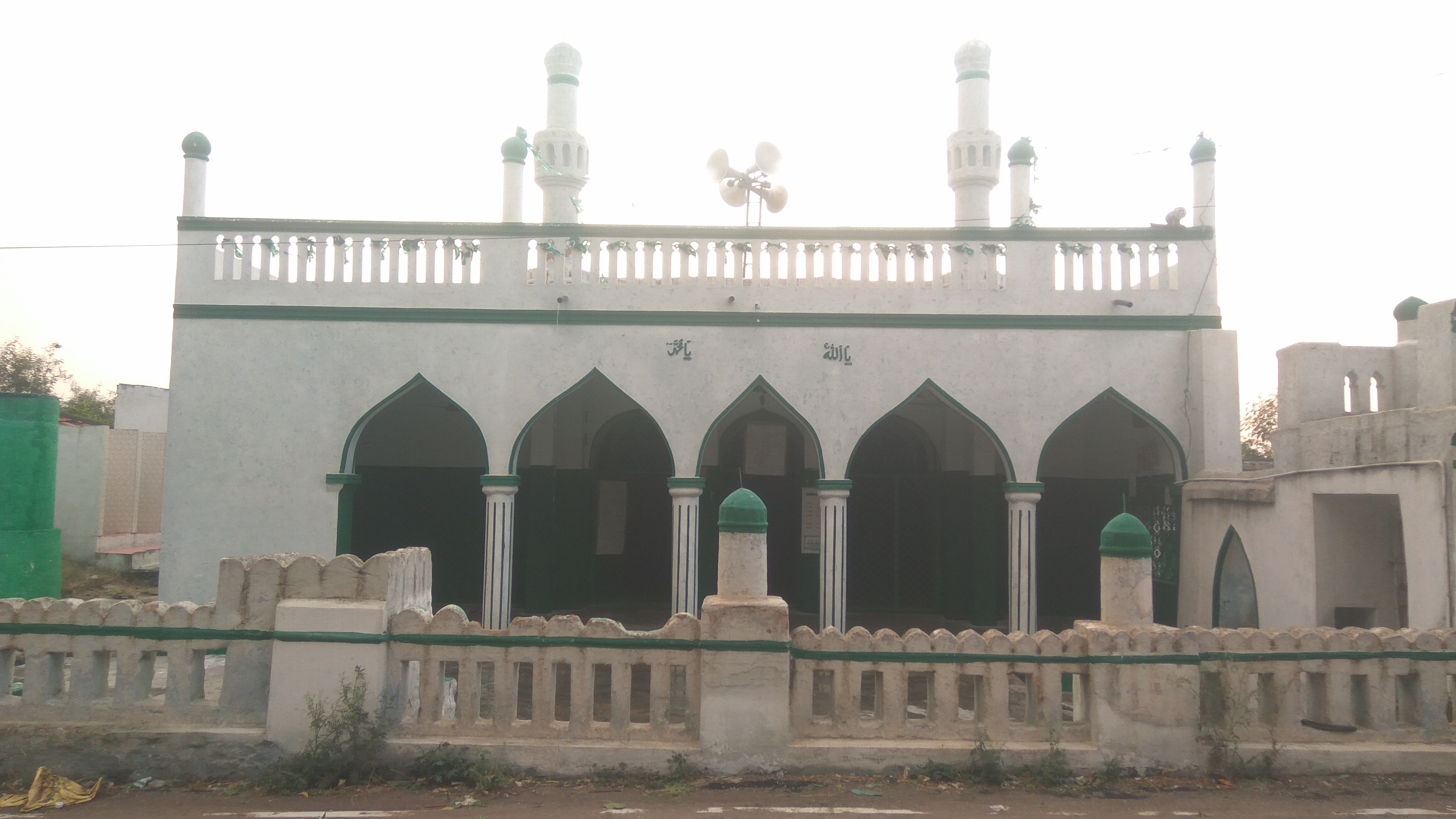 Jama Masjid in Koheda, Siddipet District, Telangana State